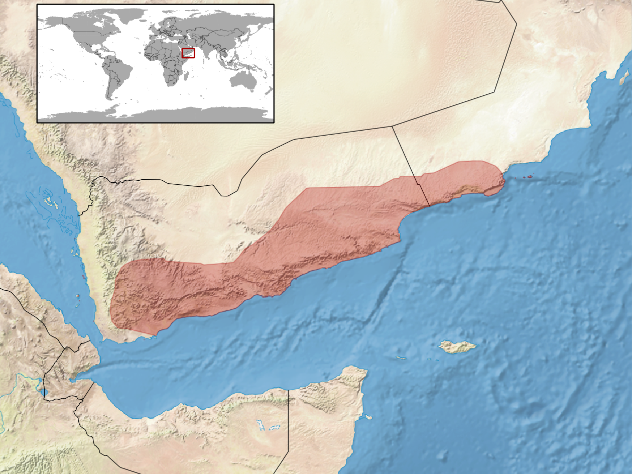 geographic distribution of Chamaeleo arabicus (Native: Oman; Yemen)